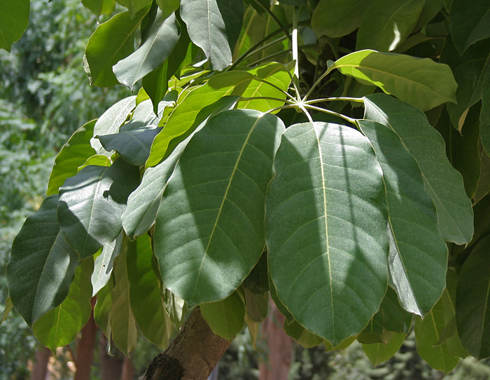 Octopus Tree Schefflera actinophylla in Hyderabad , India.